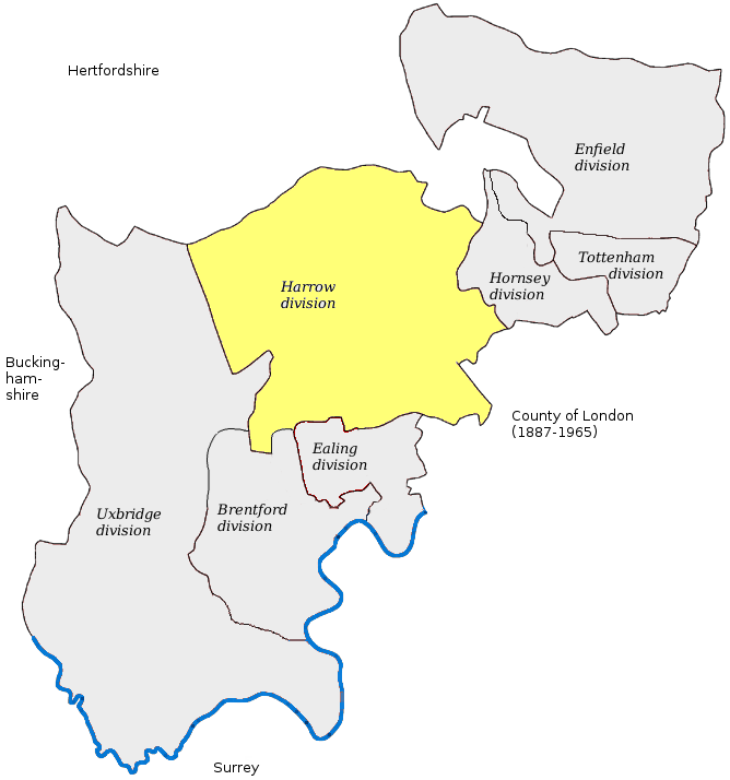 Semi-rural UK House of Commons seat Harrow, or the Harrow Division of Middlesex created in 1885 before substantially reduced in 1918.